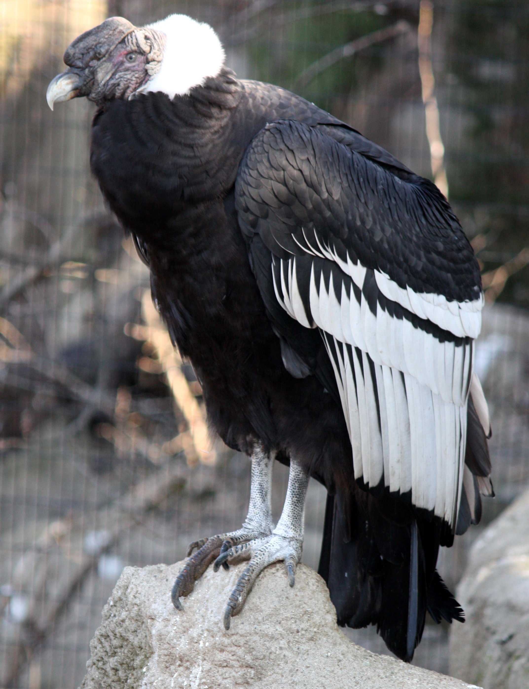 Vultur gryphus at Cincinnati Zoo